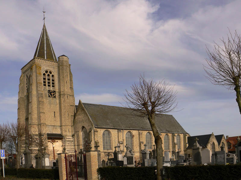 Church of Bambeke North of France